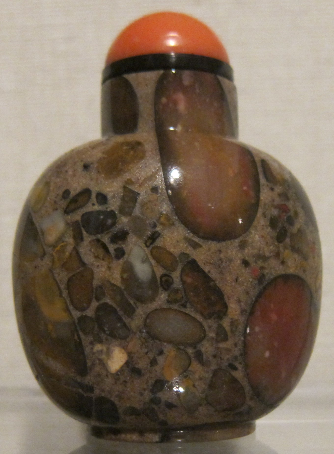 Chinese snuff bottle, Qing dynasty, c. 1750-1850, puddingstone bottle with coral and glass stopper, Honolulu Museum of Art